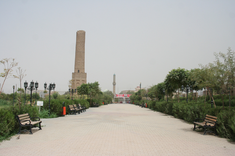 Mudhafaria Minaret at Minar Park in Erbil - Iraqi Kurdistan August 2009